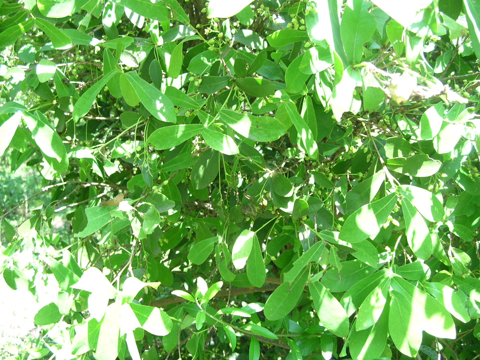 flora uruguay